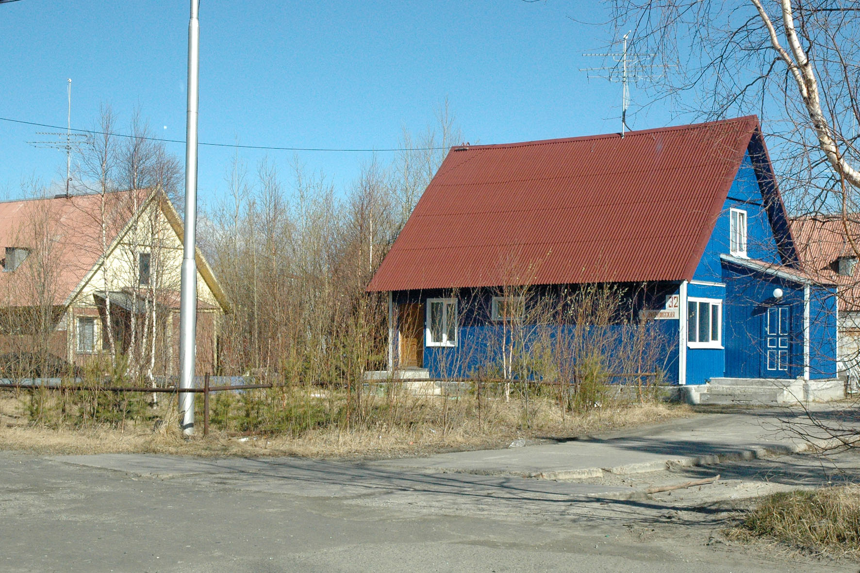 Kogalym (old town, Tallinnskaya st.), Surgut District, Khanty-Mansi Autonomous Okrug, Russia